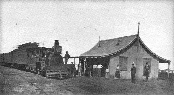 The first Caballito station of BA Western Railway. The building was demolished in 1878.